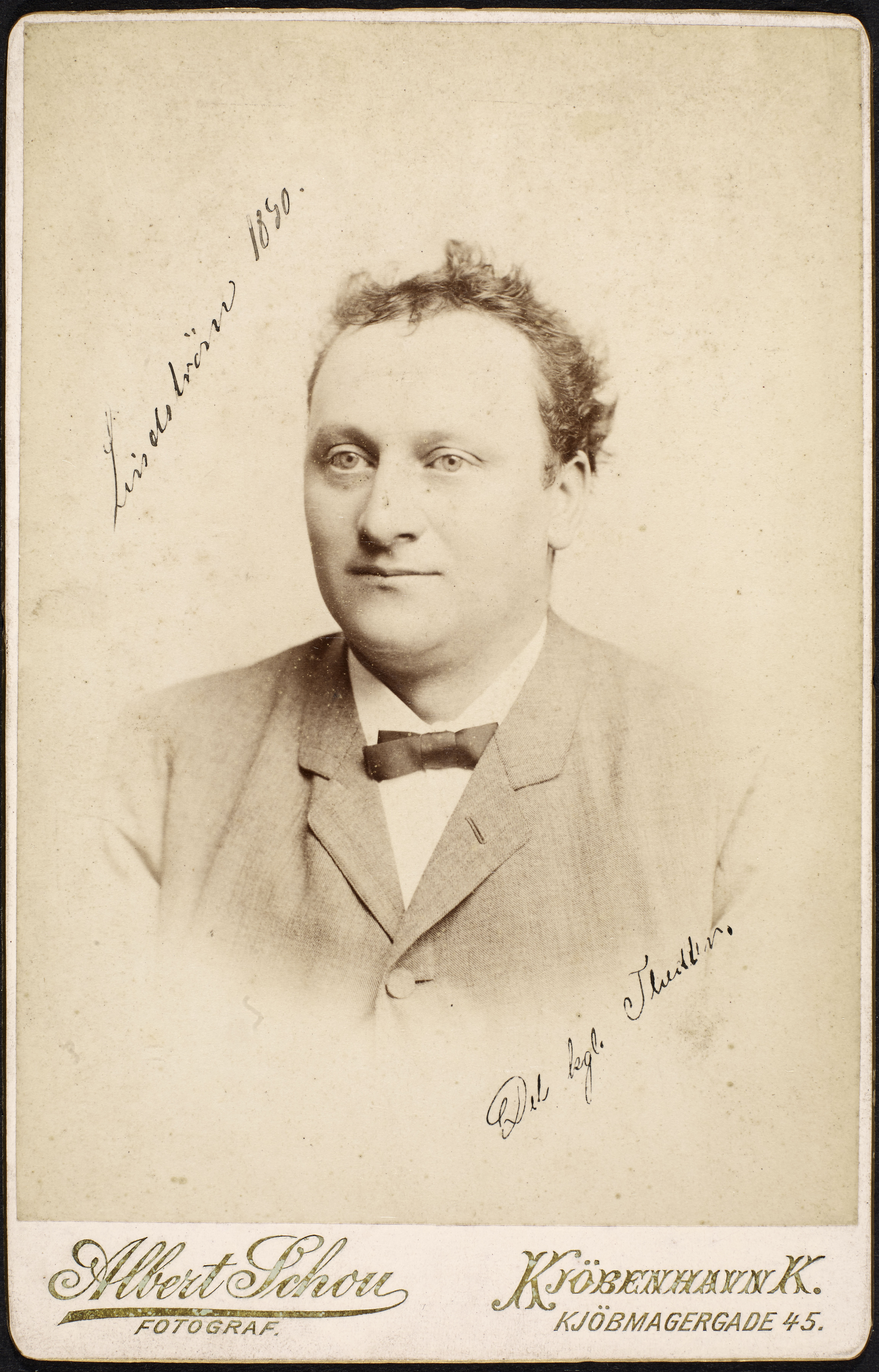 Viggo Lindstrøm (12-01-1859 - 17-06-1926) Danish actor Photo dated 1890 1963-140_46